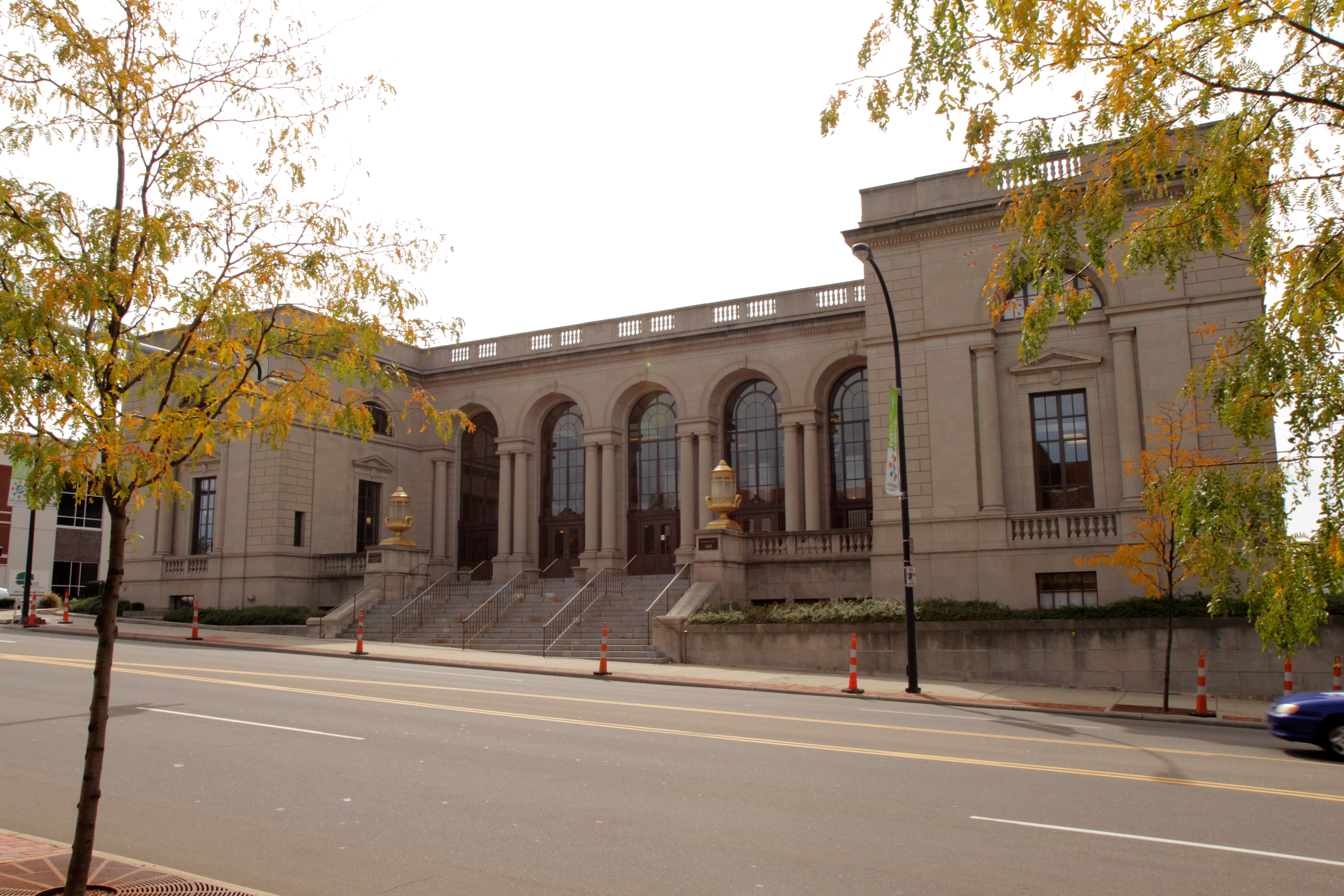 Akron Post Office and Federal Building, 168 East Market Street, Akron, Summit County, Ohio - view south showing north face.